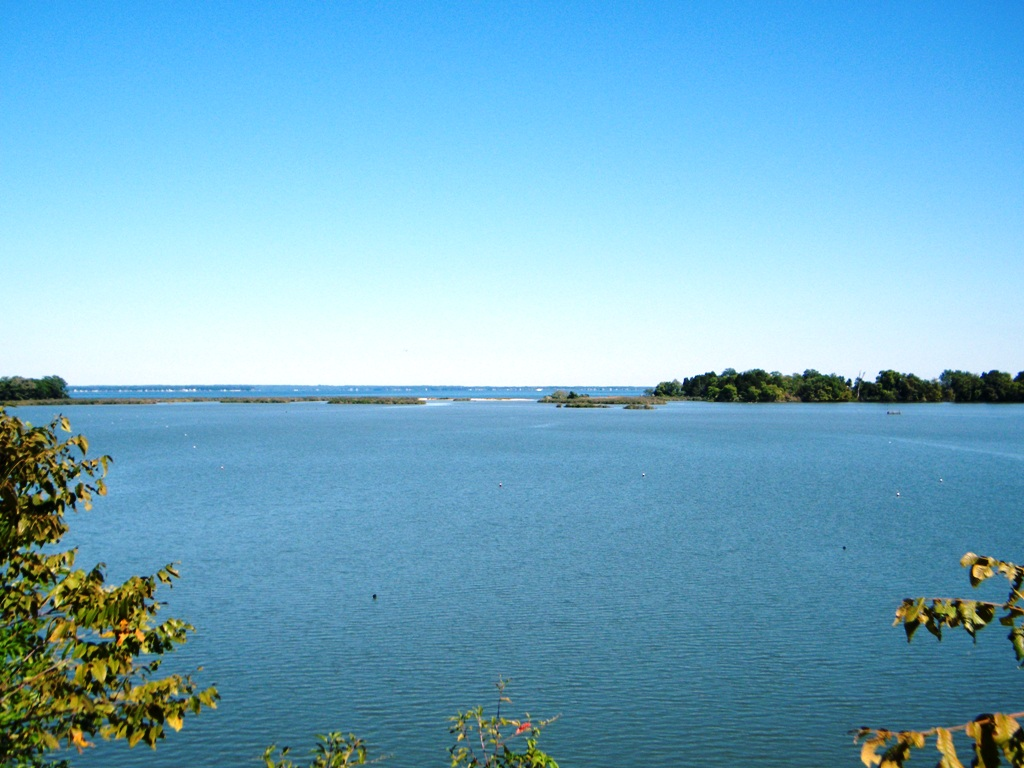 George Washington Birthplace National Monument